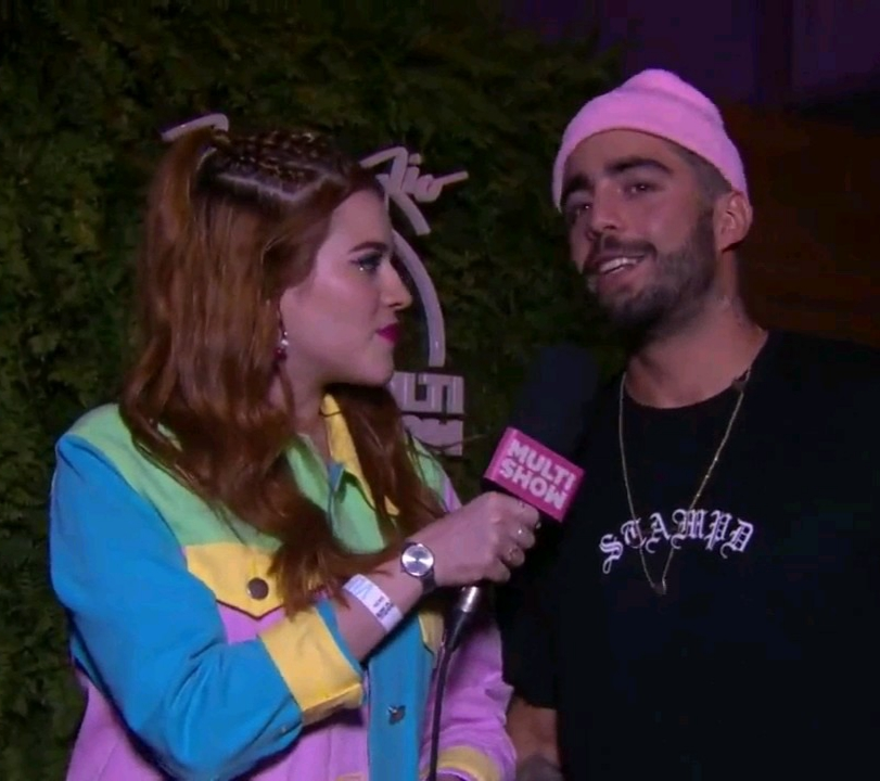 Rock in rio